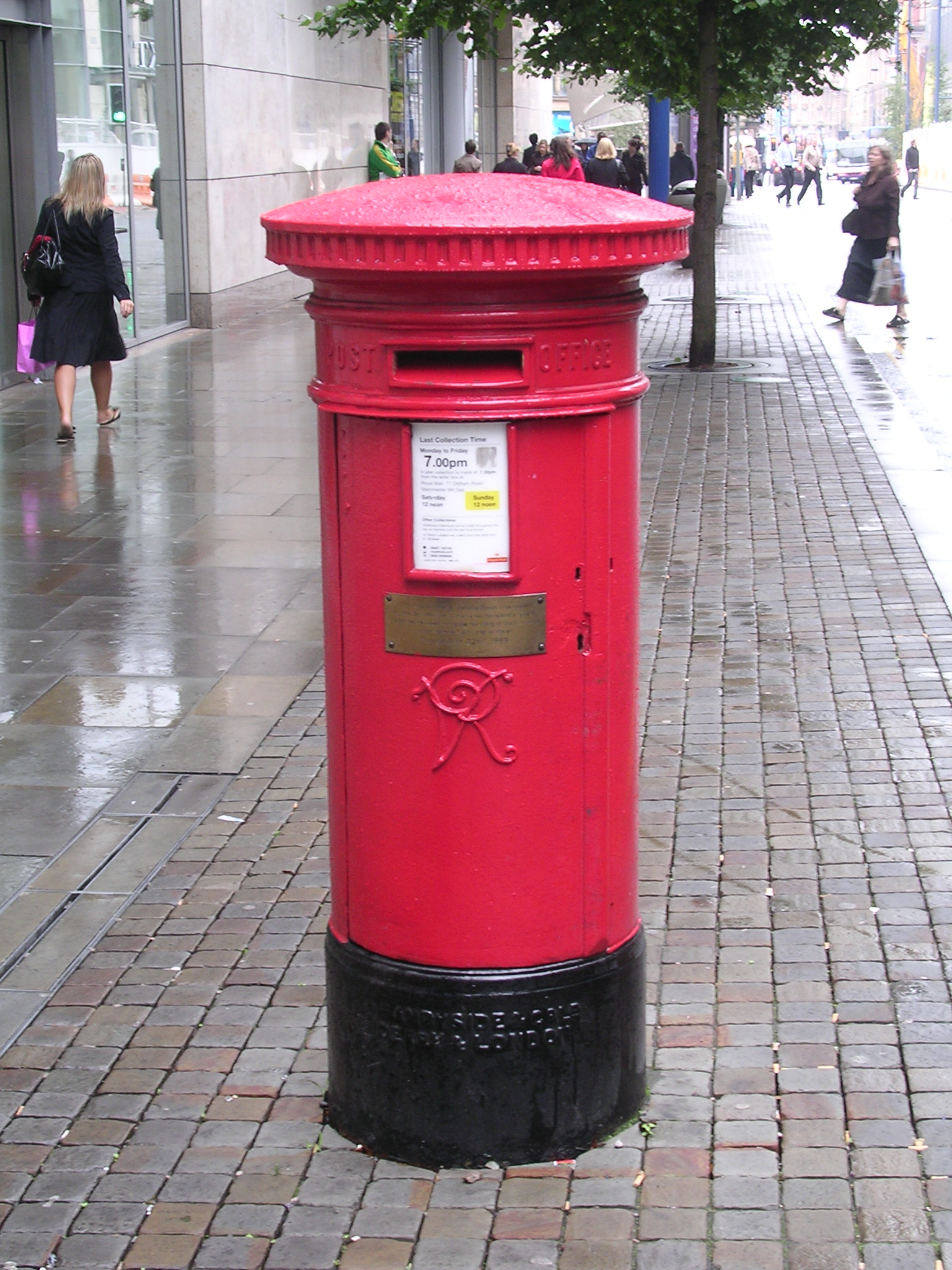 The Manchester bombing memorial postbox in Corporation Street.